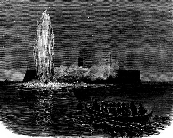 CSS David attack on USS New Ironsides: The torpedo boat approached undetected. Her spar torpedo detonated under the starboard quarter of the ironclad, throwing a high column of water which rained back upon the Confederate vessel and put out her boiler fires. With her engine dead, David hung under the starboard quarter of the New Ironsides while small arms fire from the Federal ship spattered the water around the torpedo boat. Believing that their vessel was sinking, Glassell and two others abandoned her; the pilot, Walker Cannon, who could not swim, remained on board. A short time later, Assistant Engineer J. H. Tomb swam back to the craft and climbed on board. Reigniting the fires, Tomb succeeded in getting David’s engine working again, and the torpedo boat steamed up the channel to safety. New Ironsides, though not sunk, was seriously damaged by the explosion." Harper's Weekly, A Journal of Civilization.